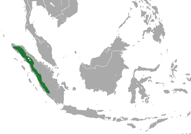 Sumatran Long-tailed Shrew (Crocidura paradoxura) range